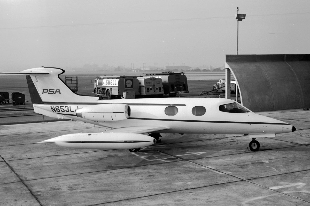 A rare photo of PSA's N653LJ at San Diego in January 1967.